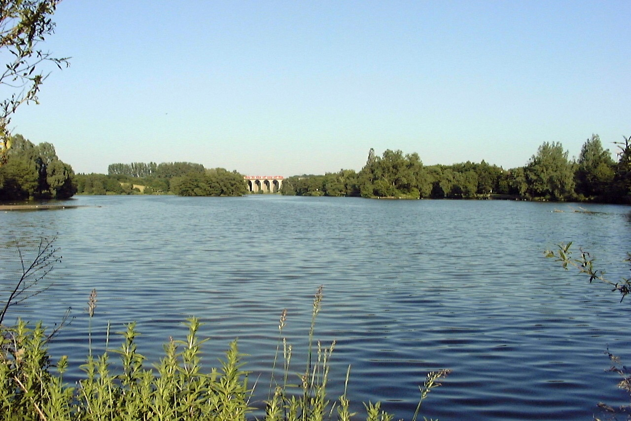 Bielefeld, Germany: Obersee, the viaduct of Schildesche in the background, photographed from the west lakeshore